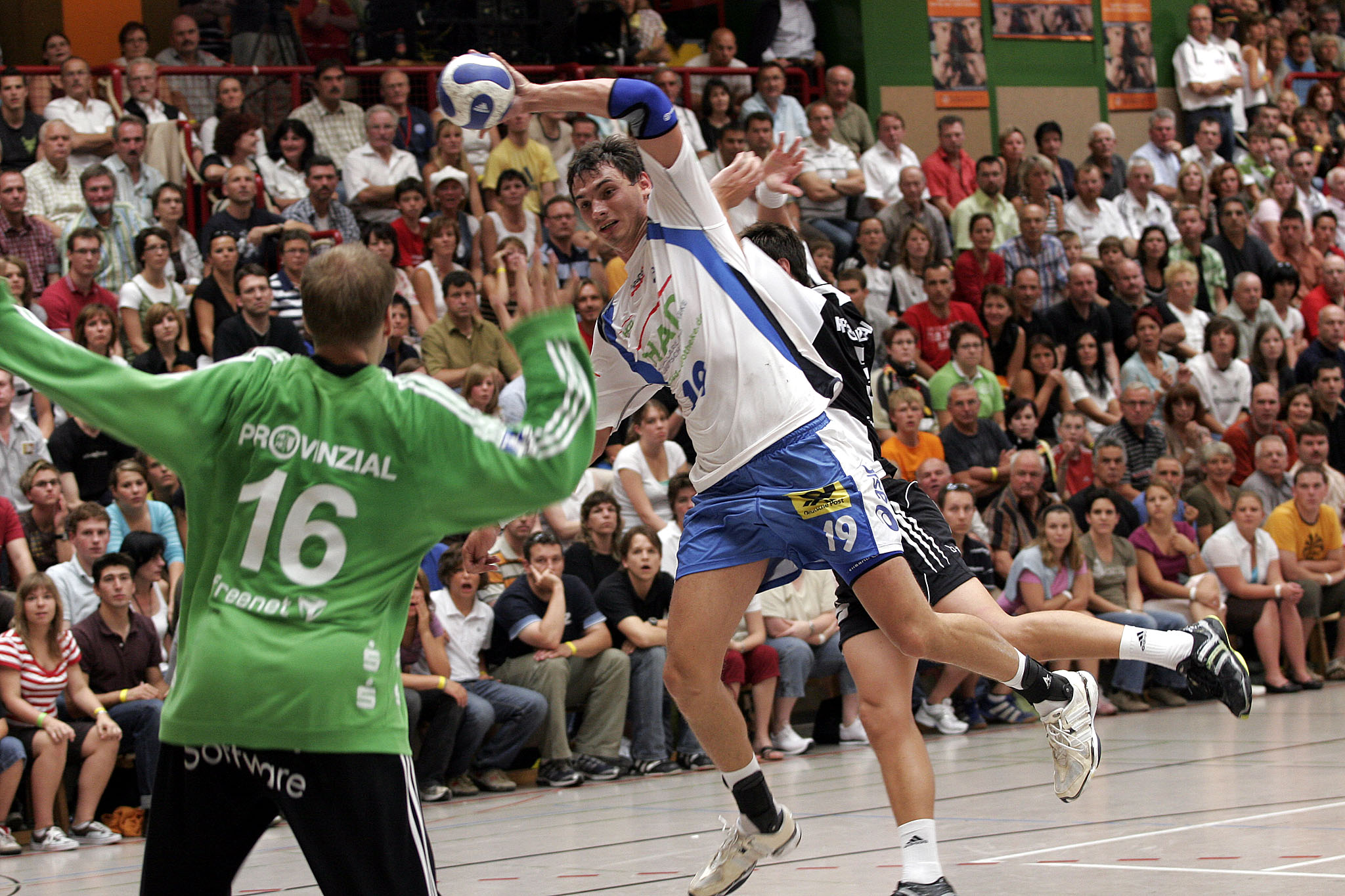 Krzysztof Lijewski, Polish handball player from HSV Hamburg, during the Schlecker Cup 2007 in Ehingen (Germany)